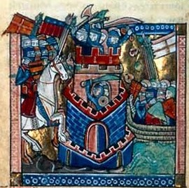 Siege of Antioch